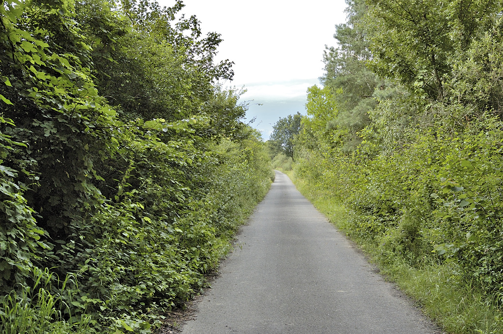 This 'Interception road' was used by Czechoslovak border guards to catch fugitives trying to reach Austria.